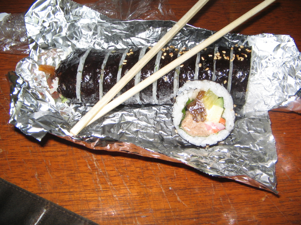 Kimbap, "Kimpab... the korean sandwich"